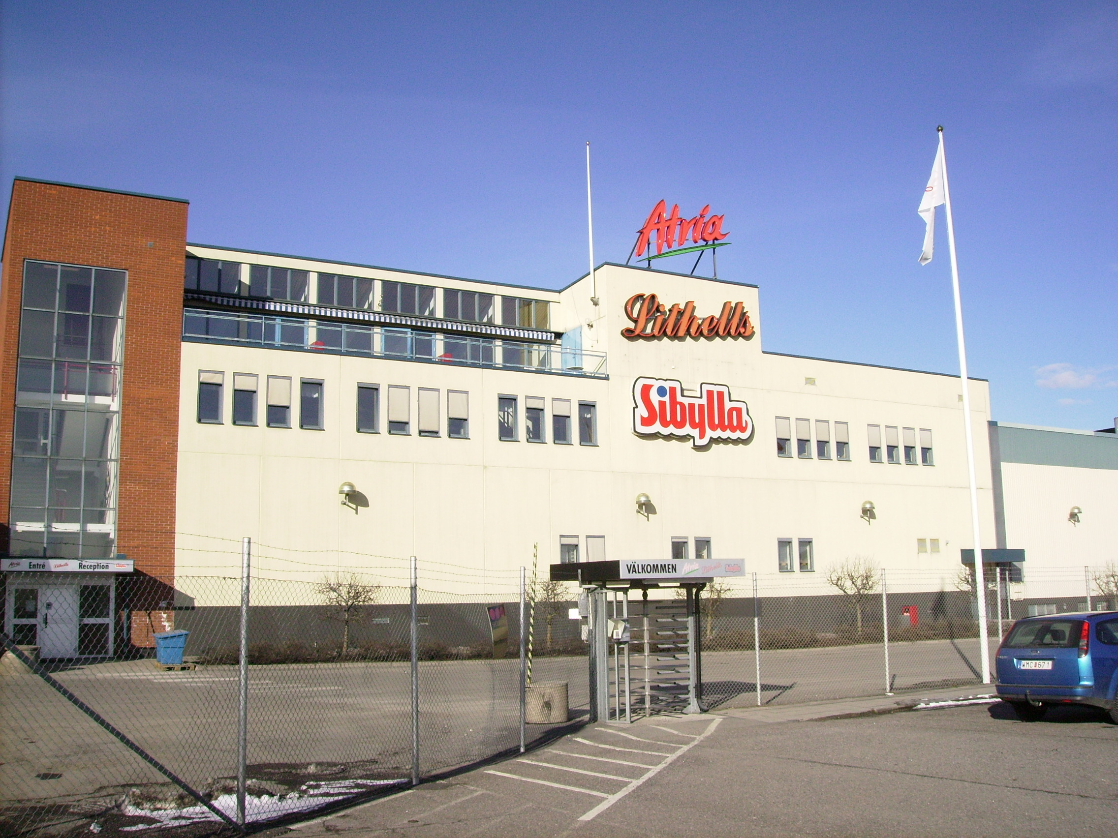 Picture at Lithells factory in Skollersta, march 2009.